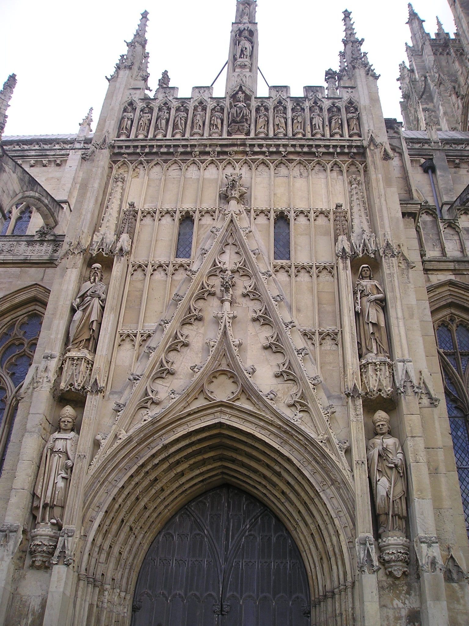 Beverley Minster, Beverley, East Riding of Yorkshire, England.